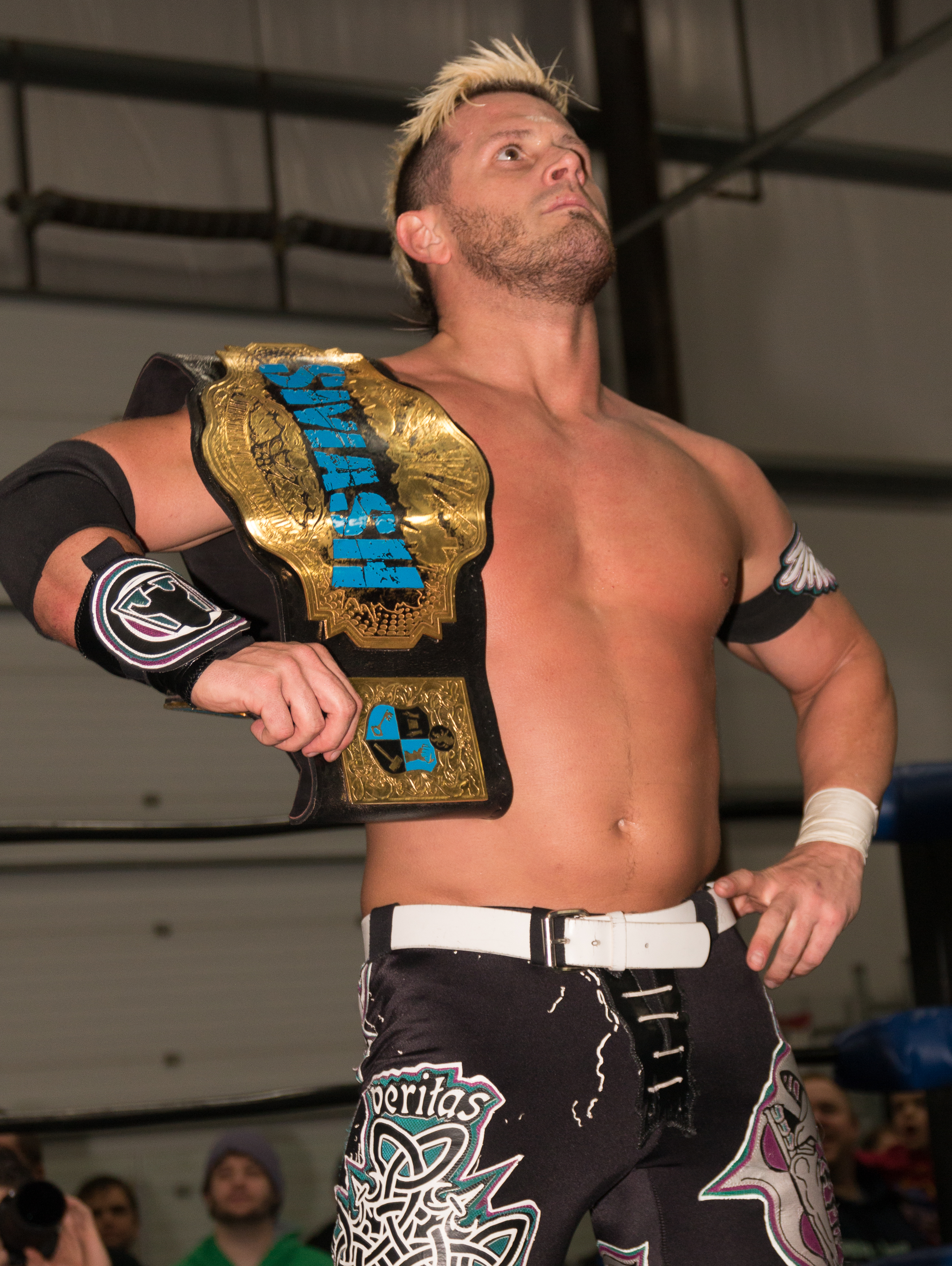 Independent wrestler Alex Shelley posing with the Smash Wrestling championship belt at their Challenge Accepted show